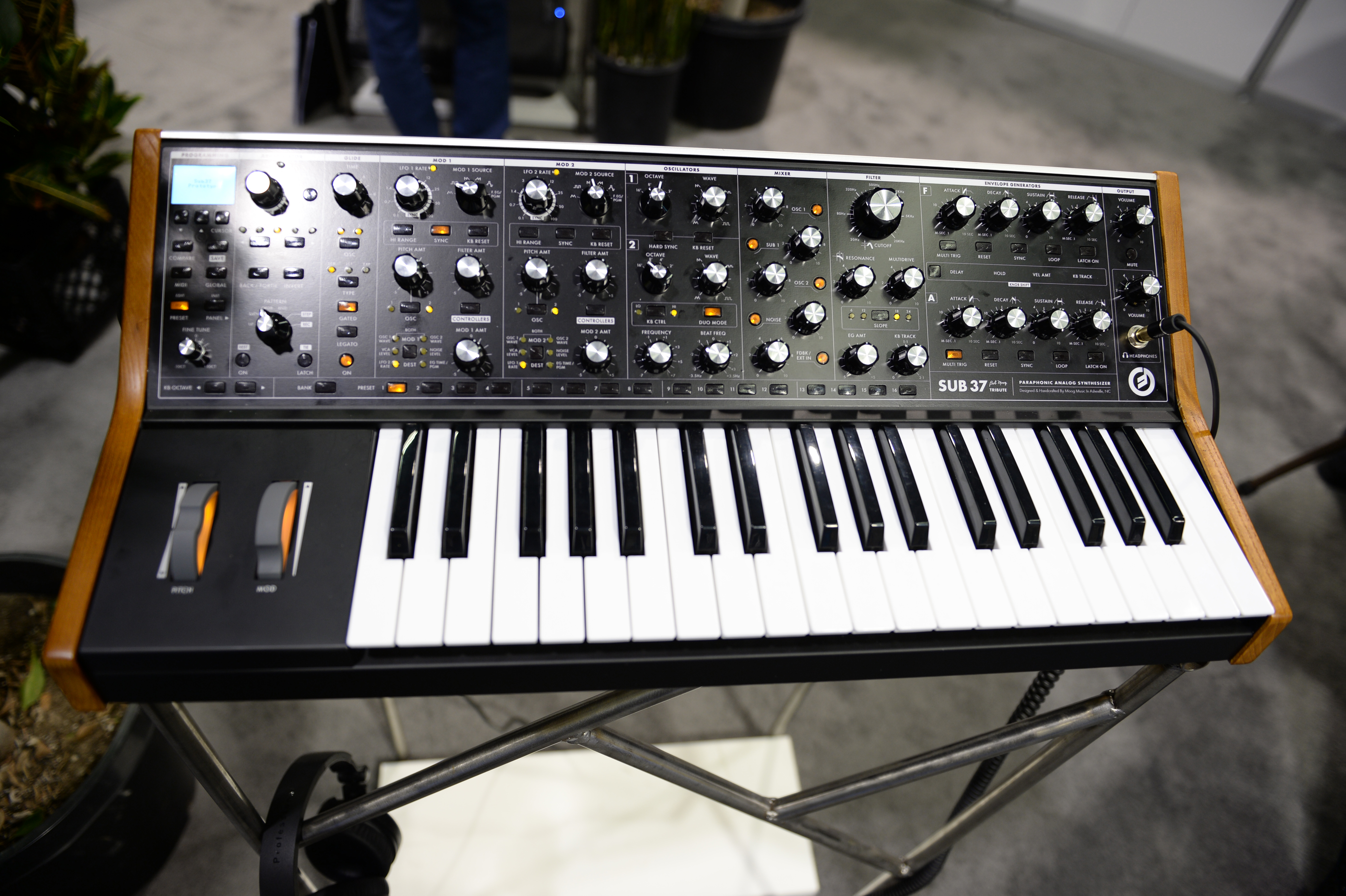 Moog Sub 37 a limited edition paraphonic (2-note) analog synthesizer built on the Sub Phatty sound engine